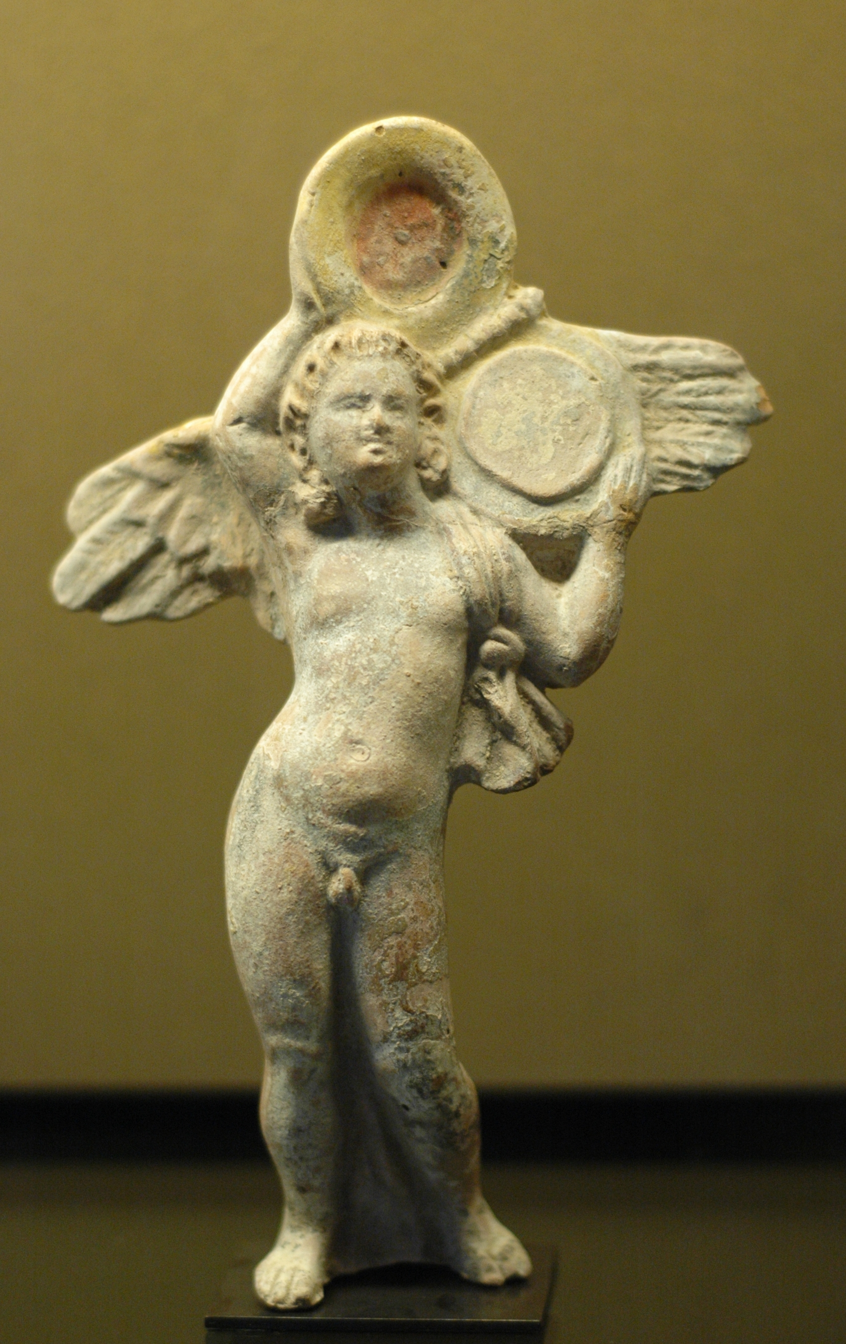 Eros holding a mirror (for Aphrodite). Terracotta, Myrina, late 1st century BC.